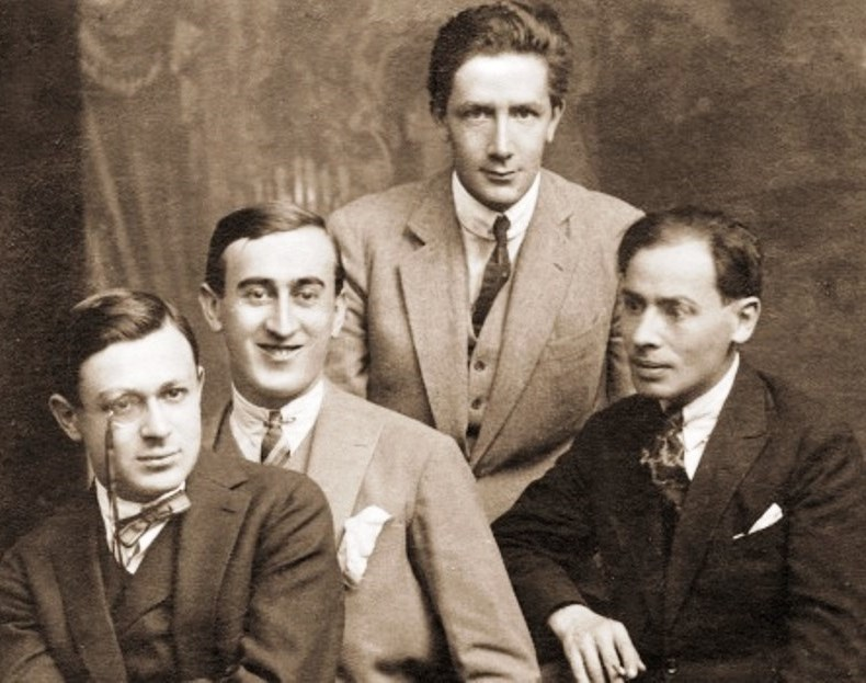 People associated with Chemarea journal, photographed in Bucharest in 1915. From left: poet-publicist Tristan Tzara, artist M. H.Maxy, poet-publicist Ion Vinea (standing), and novelist Jacques G. Costin.